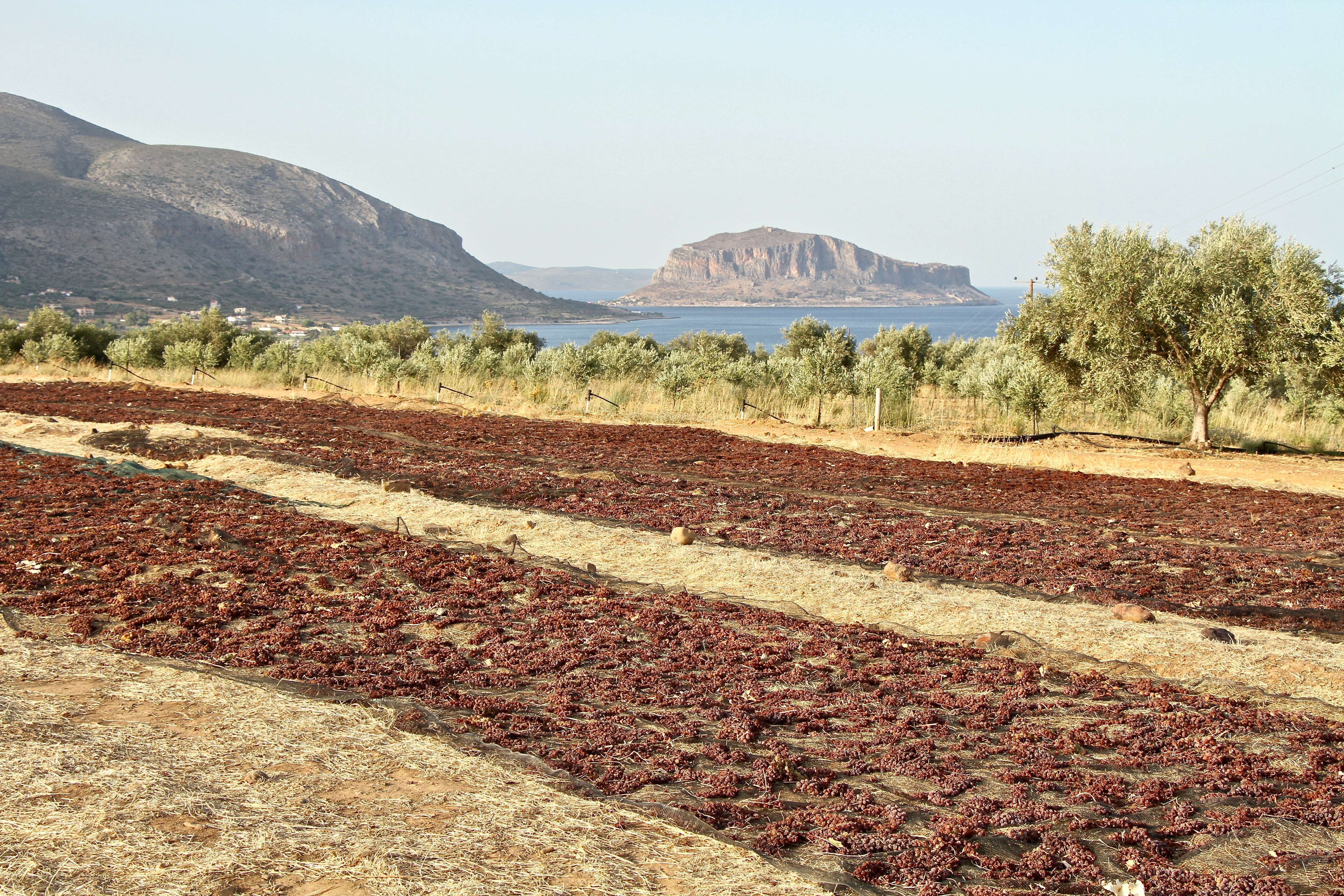 Sun drying grapes